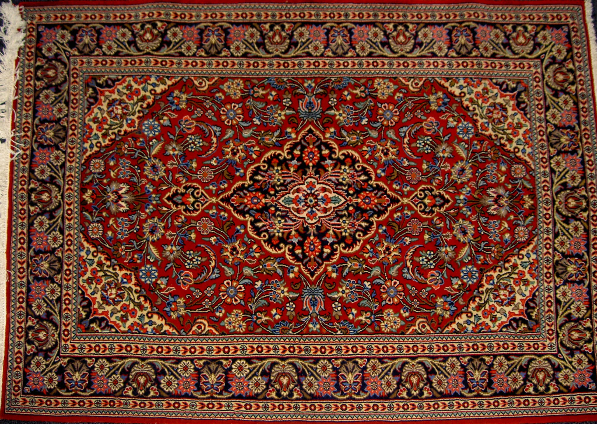 Rug from Qom, Iran. Design LACHAK and TORANJ. It is called Toranj in Persian, and Medallion in English. The design, which is called Lachak Toranj is arranged to put the Toranj in the center and Lachak (a quarter of Toranj) in the four corners, is a traditional design to be used for the binding of Koran.